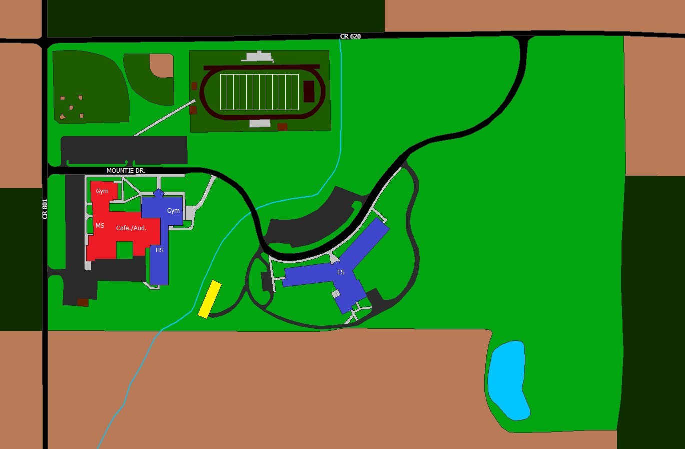 Map showing the location of the Mapleton Local School District (OH) buildings. Created due to confusion over the buildings' locations on Google maps.